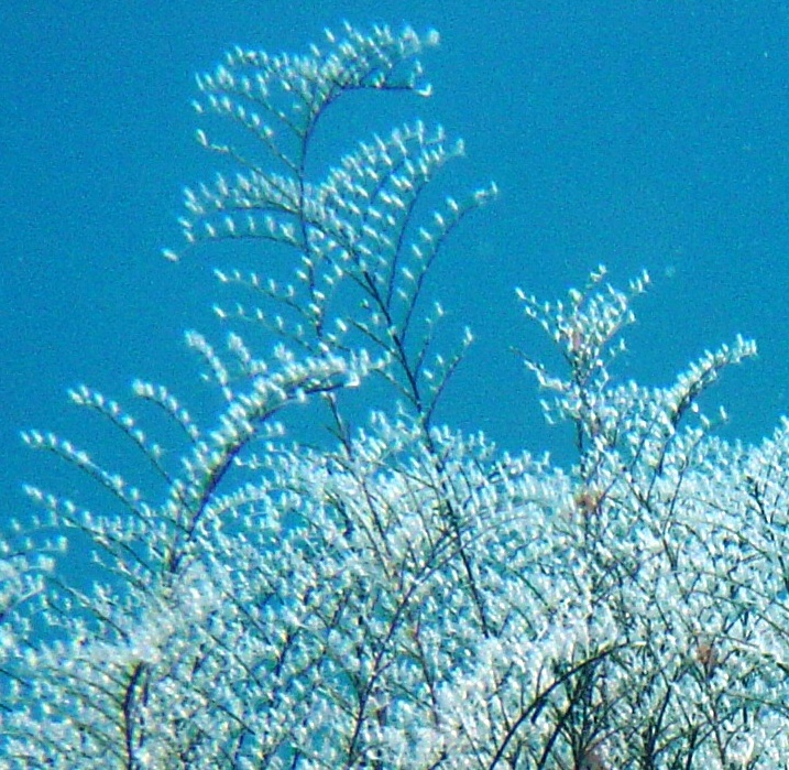 Pennaria disticha - Mediterranean Sea